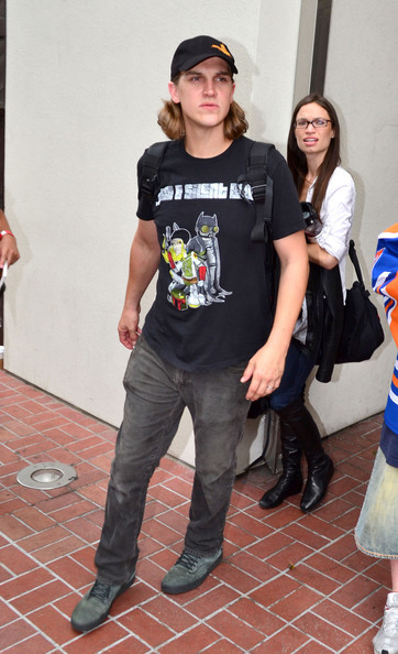 Jason Mewes walks the floor at Comic Con